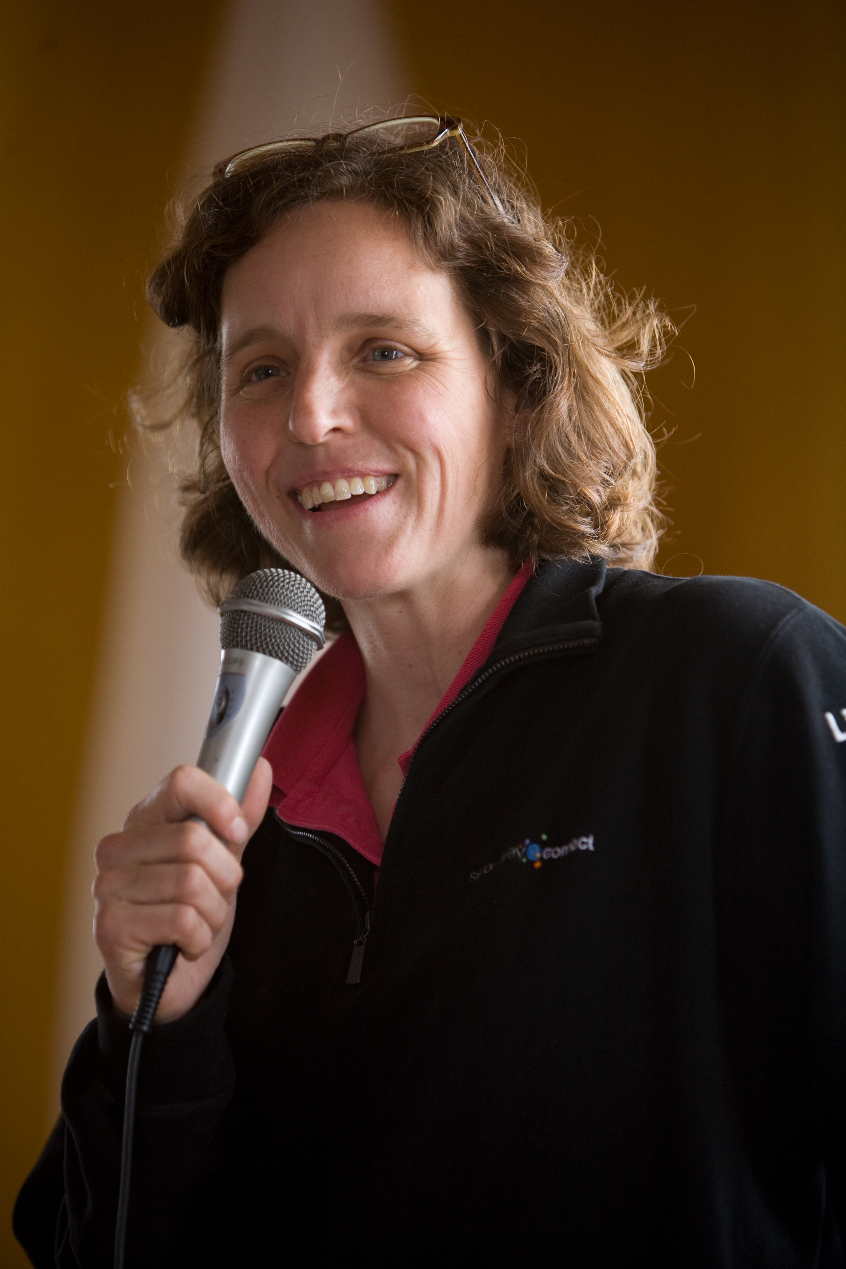 Megan Smith speaking at the Menorca Tech Talks 2008